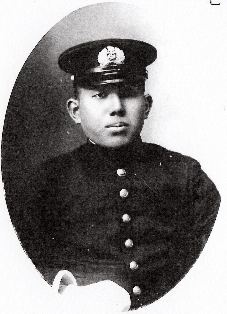 Vice Admiral Taiichiro_Kondo